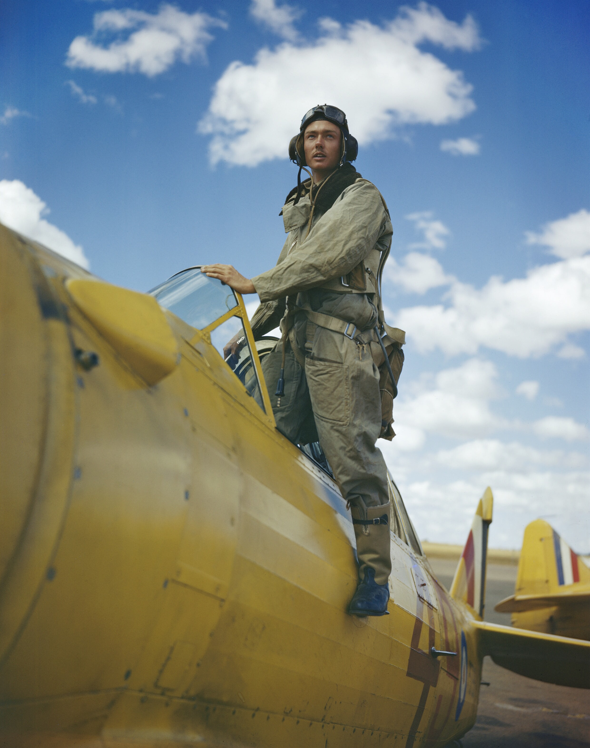 Commonwealth Joint Air Training Plan, No 20 Service Flying Training School, Cranborne, Near Salisbury, Rhodesia, January 1943 Pupil Sergeant D H Marshall climbing in to North American Harvard `49' at Cranborne. He served as a ground crewman for 2 1/2 years before being accepted for flight training.